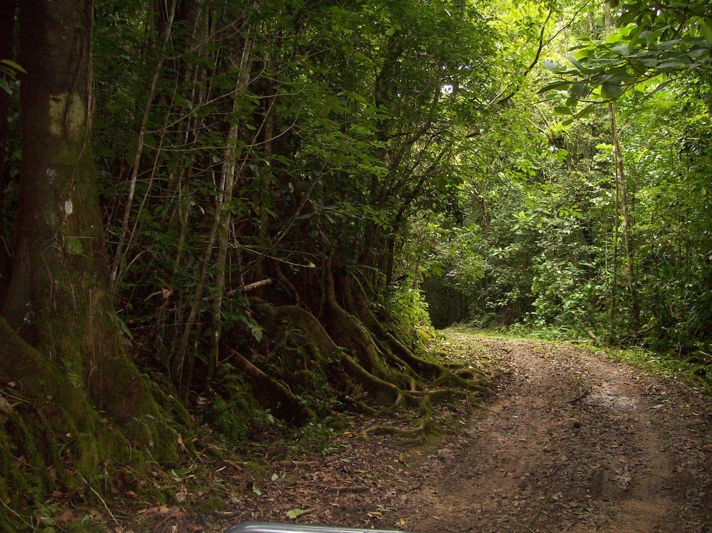 Copperhead road towards the Lake from Tigoa